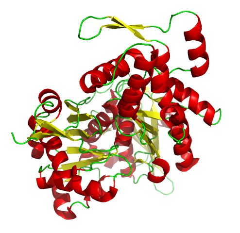 Complex between rabbit muscle alpha-actin - human gelsolin domain 1.